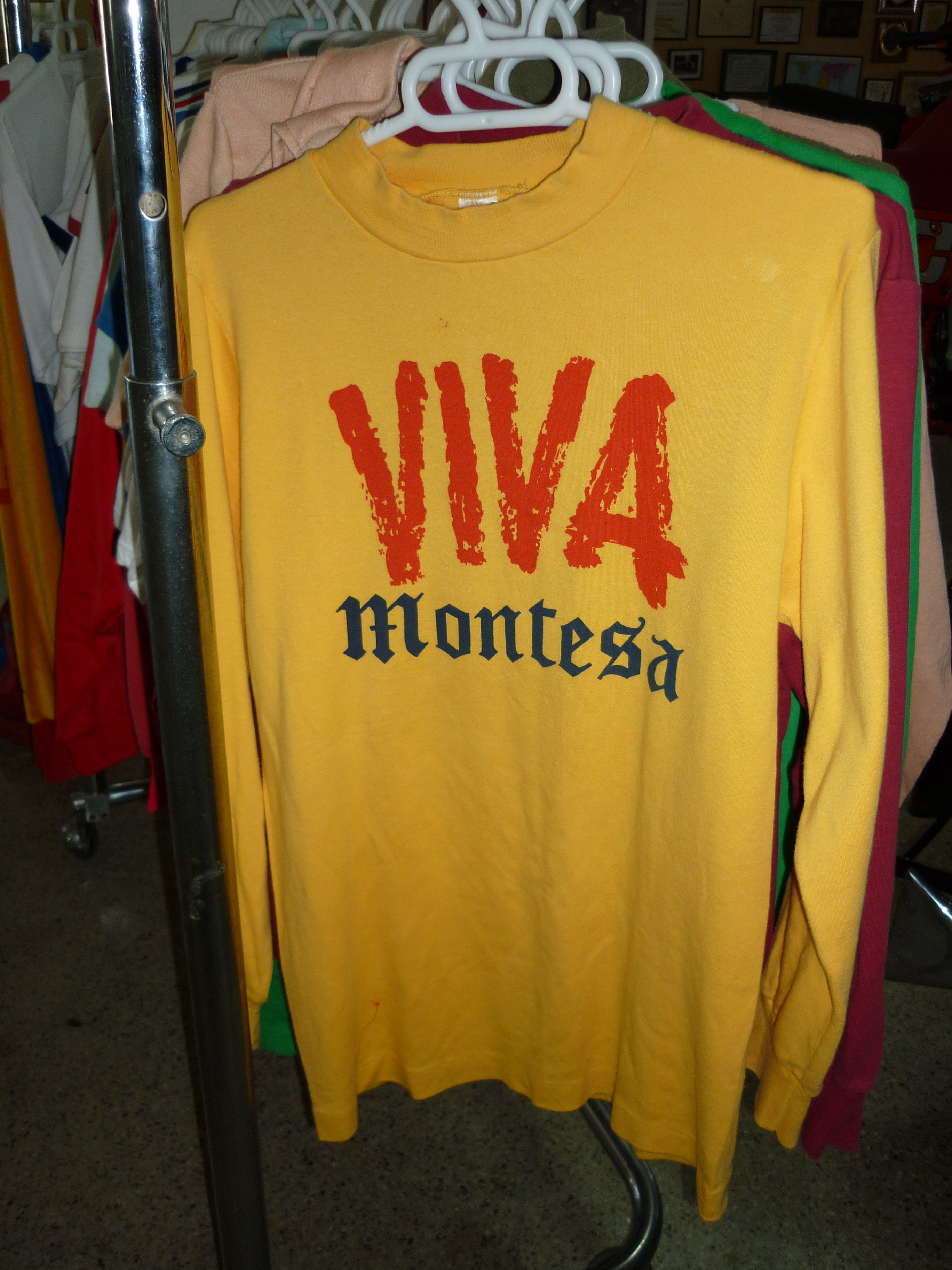 "Viva Montesa", the famous commercial slogan created by Kim Kimball in the 60's.Isern Motorcycle Museum, Mollet del Vallès (Catalonia).